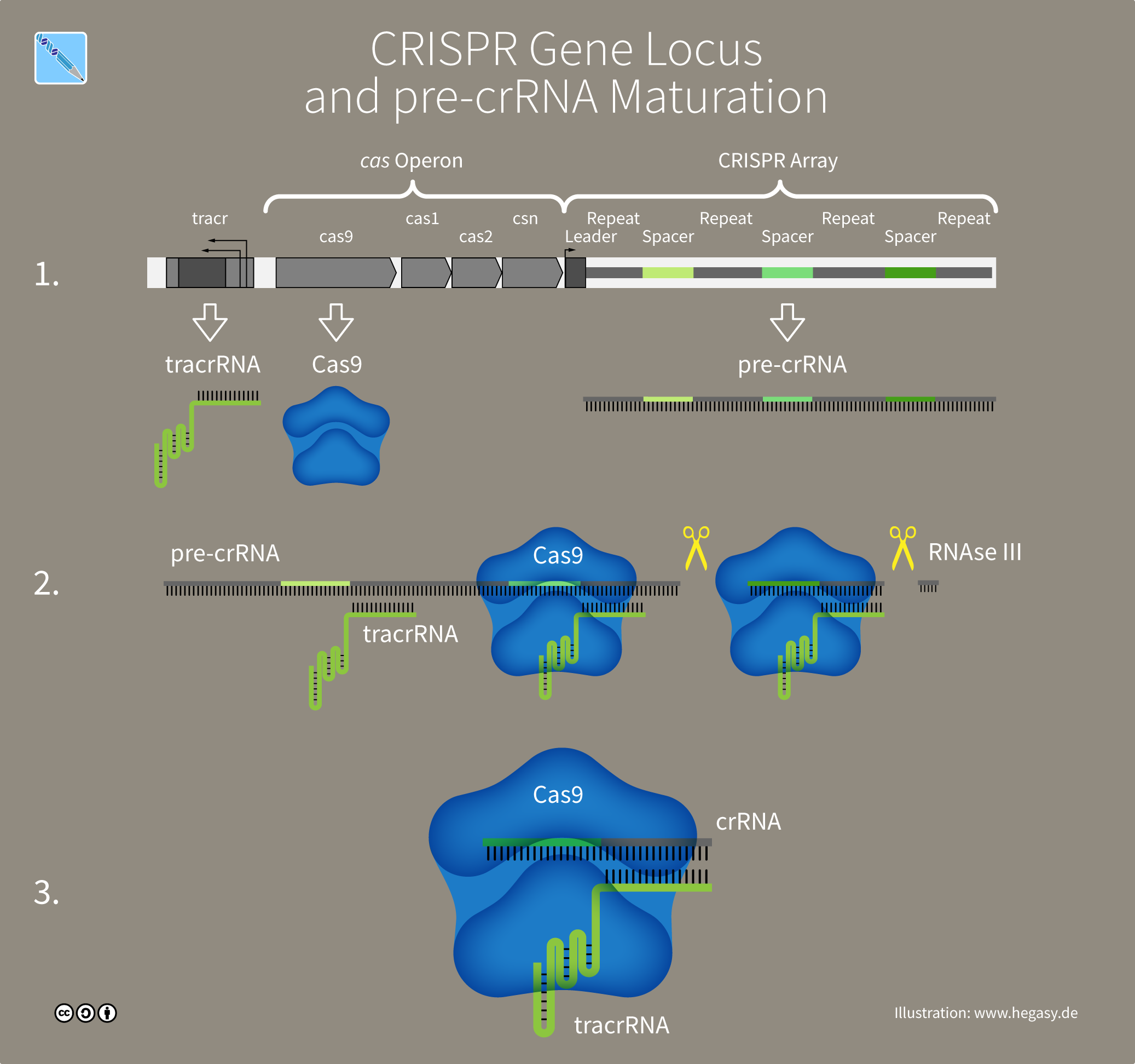 Transcripts of the CRISPR Genetic Locus and Maturation of pre-crRNA 1. The CRISPR locus of S. pyogenes consists of a cas operon, a CRISPR array, and genes coding for trans-activating crRNA (tracrRNA). tracrRNA, Cas9 RNA and pre-crRNA are transcribed from the CRISPR genetic locus. tracrRNA then forms a tertiary structure with three loops and Cas9 RNA is further translated in protein. 2. Because pre-crRNA is synthesized as a continuous stretch, a maturation process follows. In this process, tracrRNAs pair with repeat sequences of pre-crRNA. Cas9 protein is recruited to form a ternary complex with the tracrRNA and pre-crRNA. Single complexes are then released through cleavage by RNAse III enzymes. 3. The surveillance and interference complex consists of Cas9 and a duplex of tracrRNA and crRNA. crRNA contains the spacer sequence for comparison with DNA, and a sequence to form a duplex with tracrRNA.